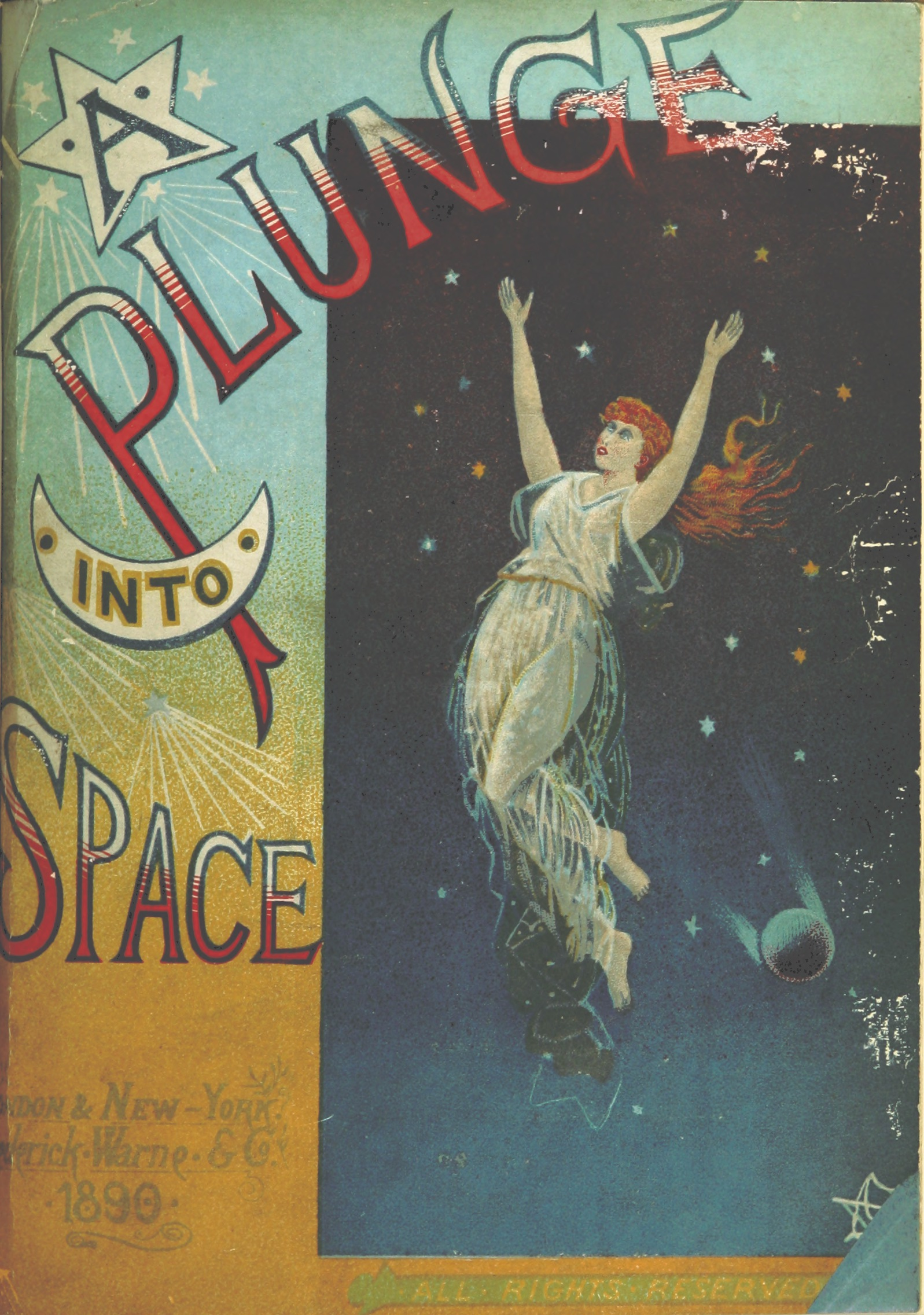 Image taken from: Title: "A Plunge into Space" Author: CROMIE, Robert. Shelfmark: "British Library HMNTS 012631.f.14." Page: 245 Place of Publishing: London & New York Date of Publishing: 1890 Publisher: Frederick Warne & Co. Issuance: monographic Identifier: 000823080 Note: The colours, contrast and appearance of these illustrations are unlikely to be true to life. They are derived from scanned images that have been enhanced for machine interpretation and have been altered from their originals. If you wish to purchase a high quality copy of the page that this image is drawn from, please order it here. Please note that you will need to enter details from the above list - such as the shelfmark, the page, the book's volume and so on - when filling out your order. Following this or the link above will take you to the British Library's integrated catalogue. You will be able to download a PDF of the book this image is taken from, as well as view the pages up close with the 'itemViewer'. Click on the 'related items' to search for the electronic version of this work. Click here to see all the illustrations in this book and click here to browse other illustrations published in books in the same year. Please click on the tags shown on the right-hand side for other ways to browse the illustrations.